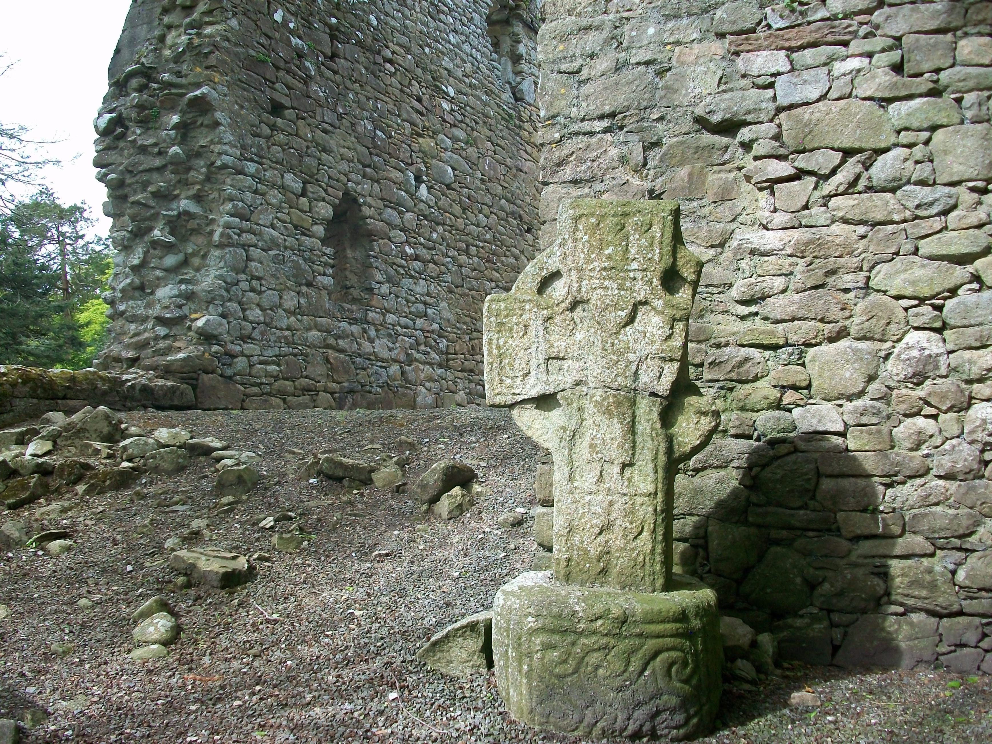 St. Mullins Early Medieval Ecclesiastical Site